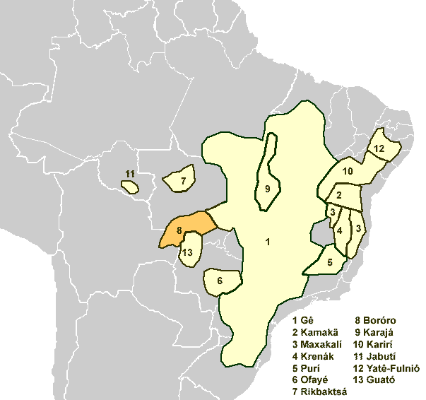 Boróroan languages (orange), (probable spread area at the time of contact) Source: Ribeiro, Eduardo & Van der Voort, Hein (2010) “Nimuendajú was right: The inclusion of the Jabuti language family in the Macro-Jê stock”, International Journal of American Linguistics, 76/4.